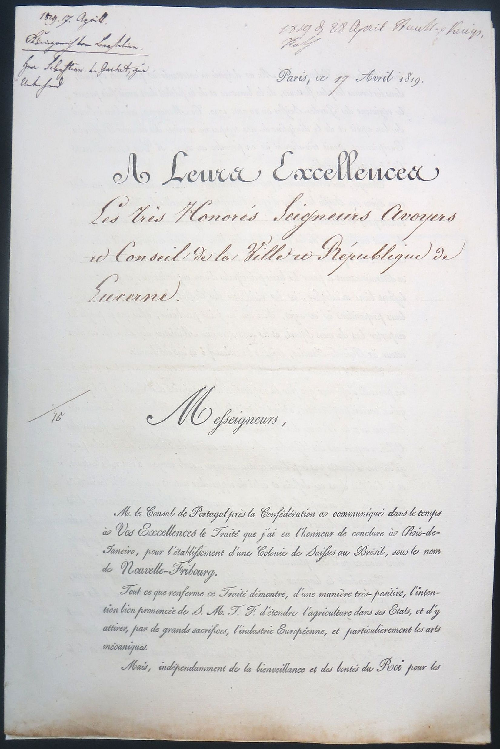 Brazilian request by Sébastien Gachet 1819 to the Swiss Federation to hire Swiss soldiers (Staatsarchiv Luzern AKT 23/9 C)